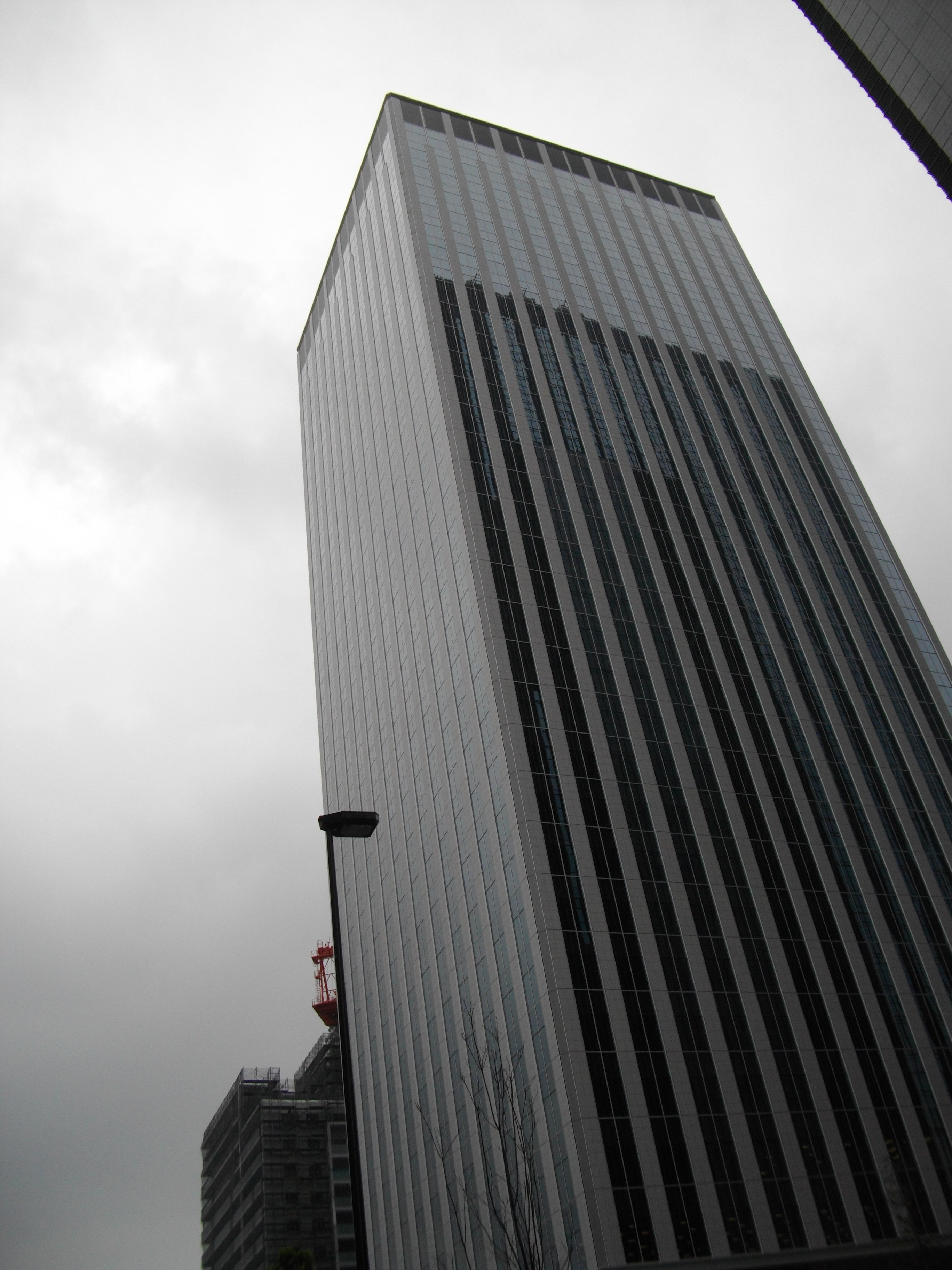 A Photo of Shinjuku Front Tower,Kitashinjuku,Shinjuku-ku,Tokyo,Japan.